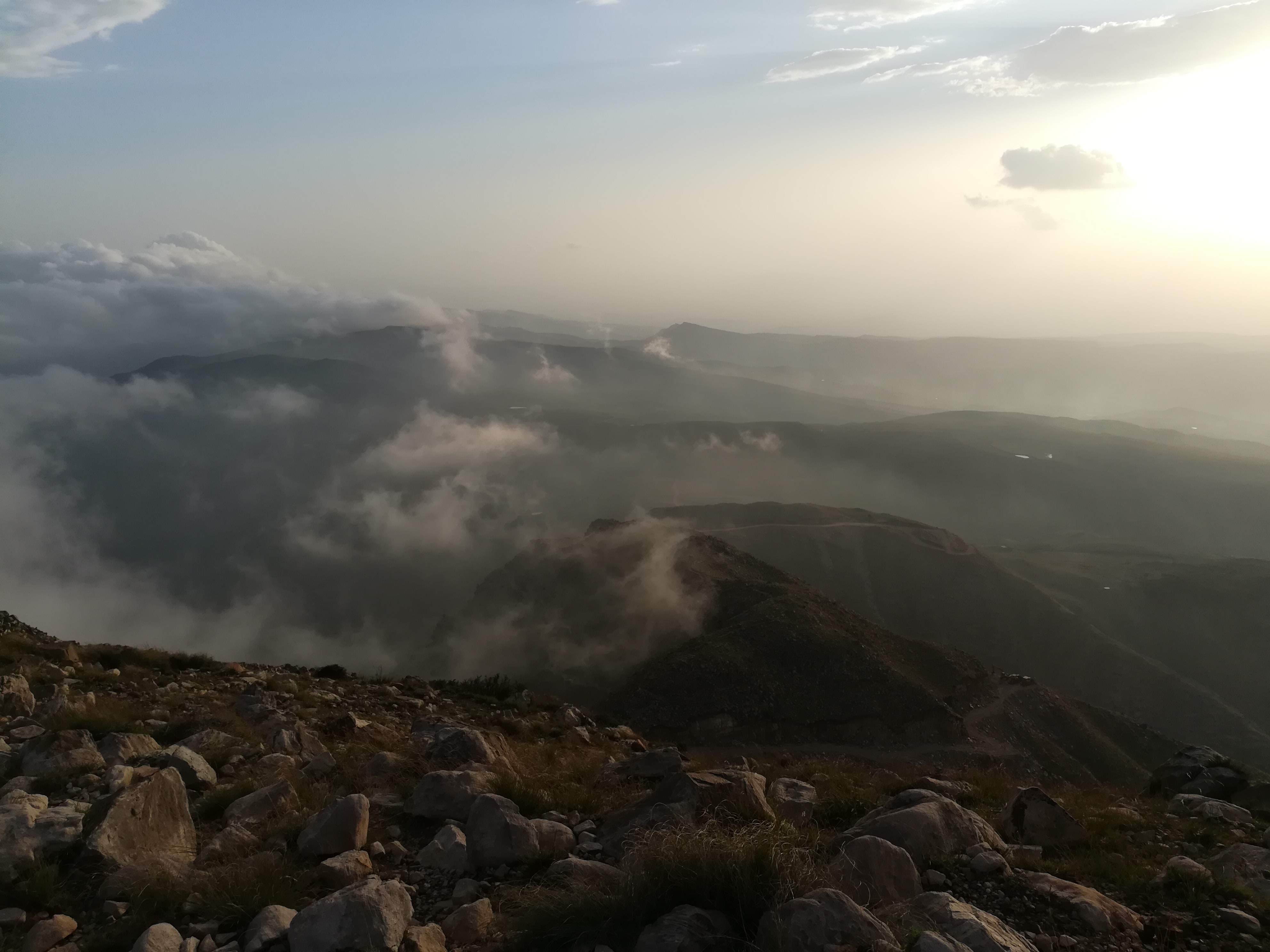 A western view of yak bhae top